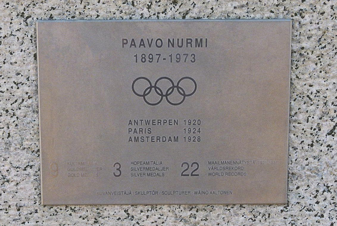 Paavo Nurmi plate